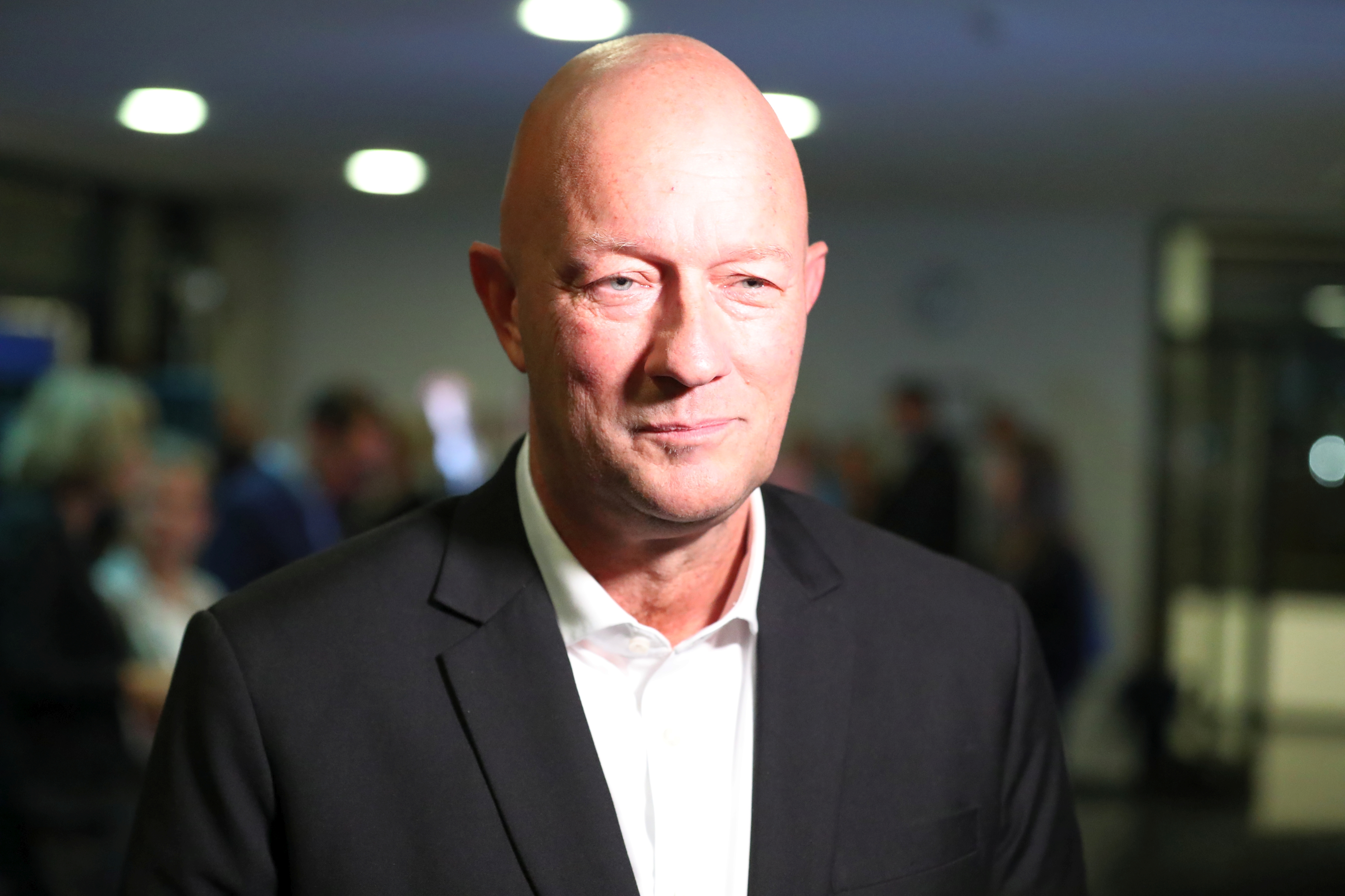 Election night Thuringia 2019: Thomas L. Kemmerich (FDP)